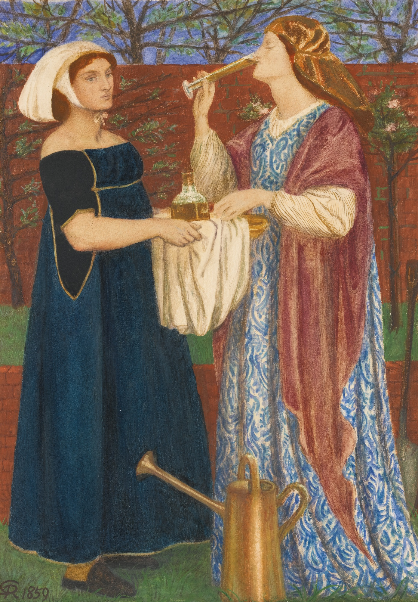 «Two women in a garden face each other. The one on the right is drinking from a long glass offered to her by a serving-woman in a blue smock. . . . Espalier trees against a red-brick wall provide the background». (Virginia Surtees, Dante Gabriel Rossetti 1828-1882, The Paintings and Drawings – A Catalogue Raisonneé, 1971, no. 112, 2 volumes, vol. I., p.68)